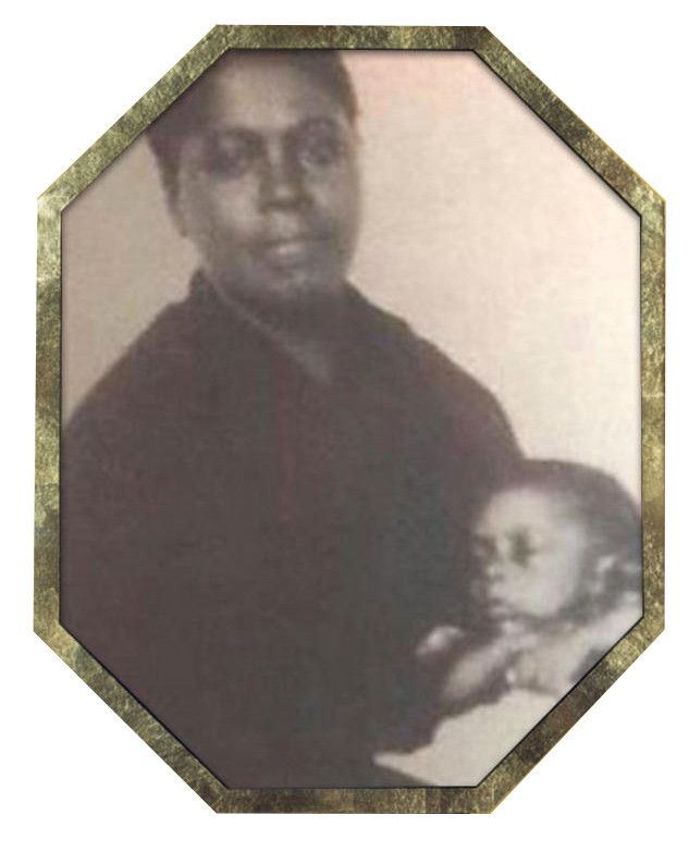 The only existing photo of Henrietta Duterte.